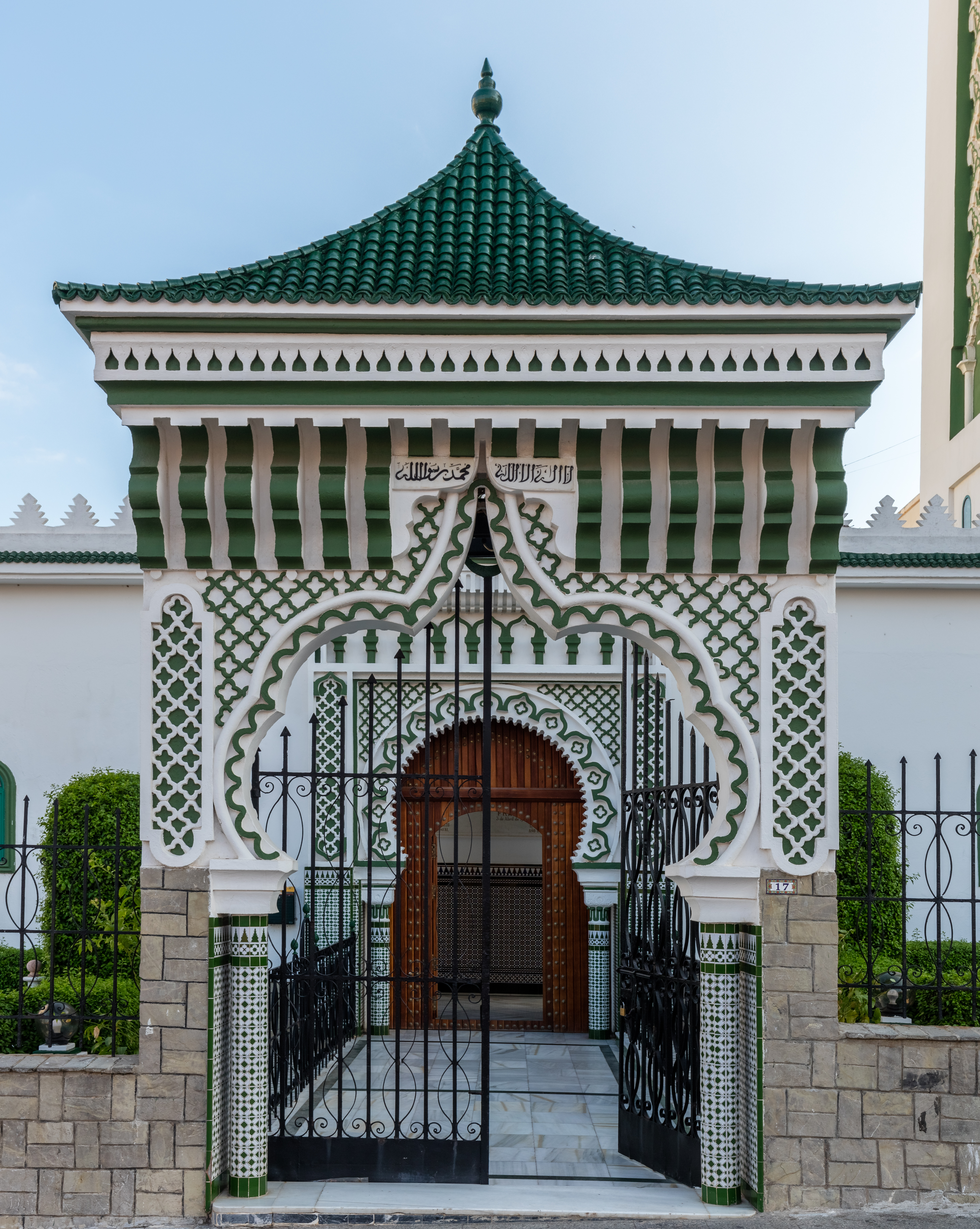 Muley El Mehdi Mosque, Ceuta, Spain